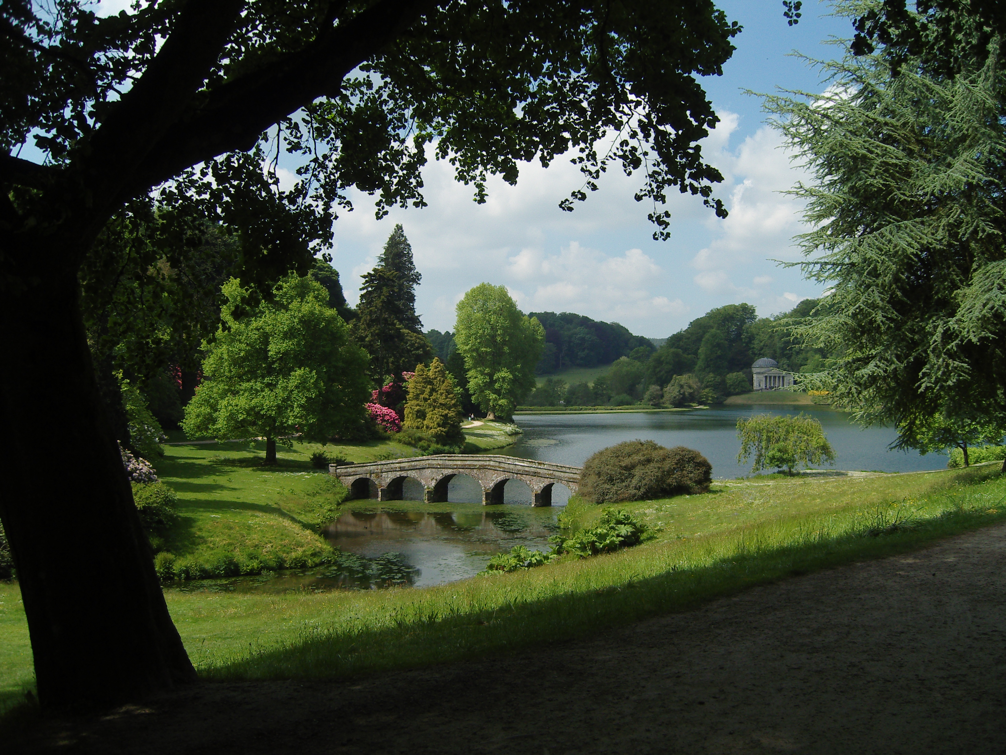 Stone arch bridge in Stourhead